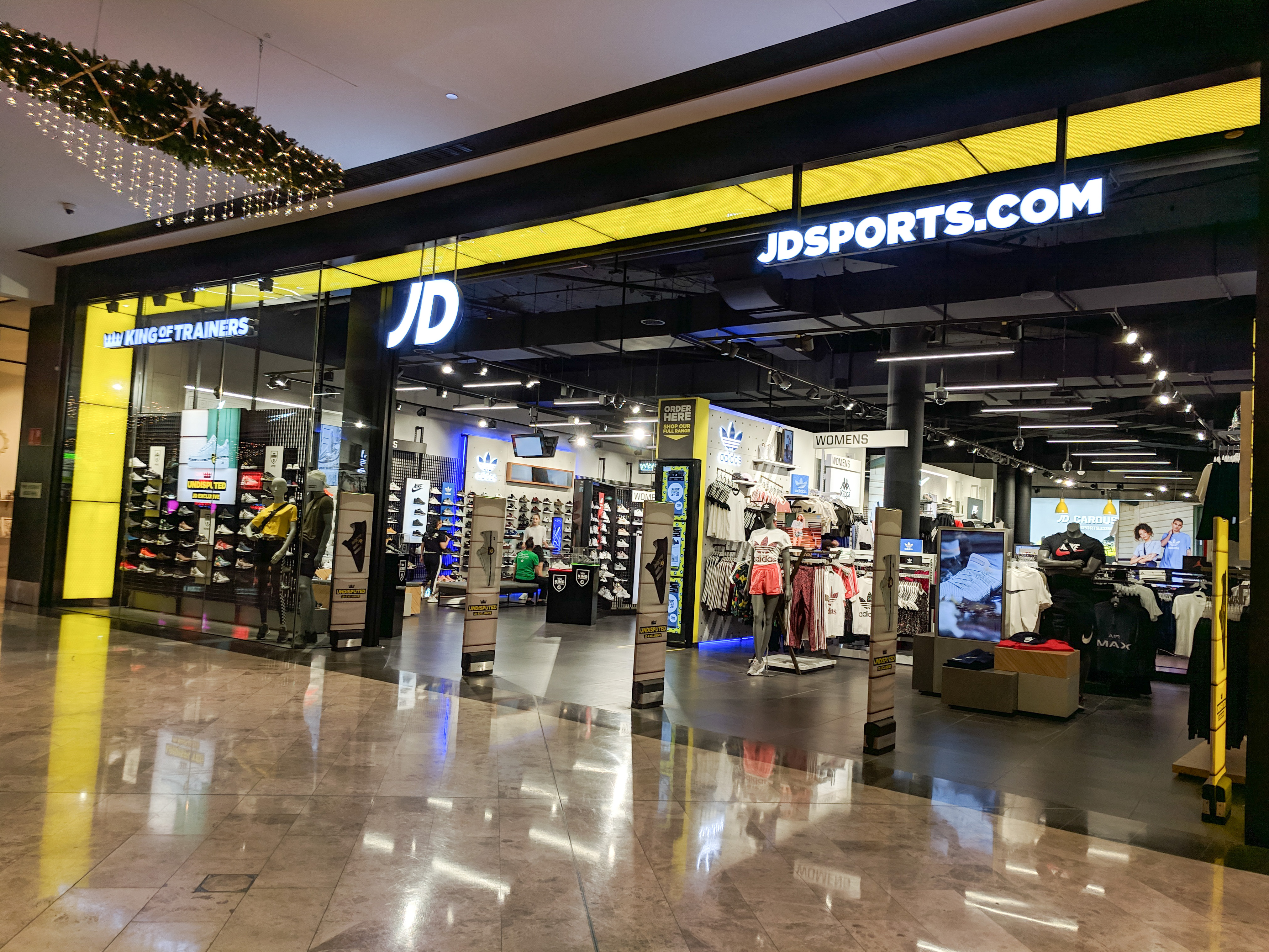 JD Sports store in Westfield Carousel, Perth